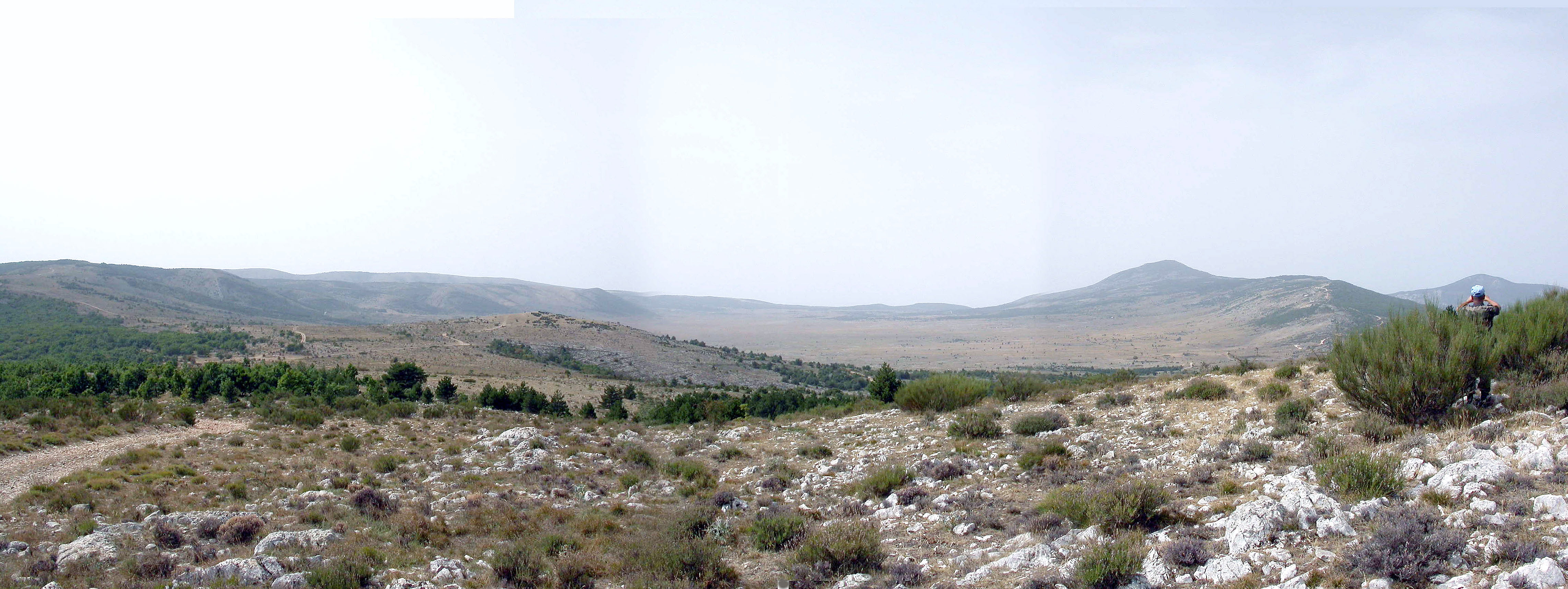 Canjiers military camp : firing training place in 'Grand Plan' closed to Verdon river